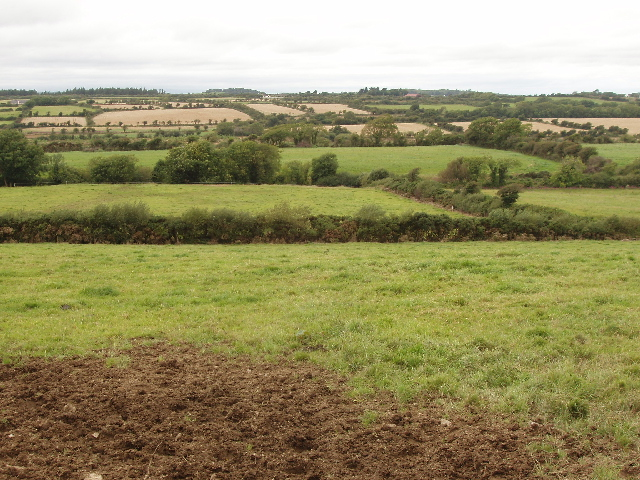 Pasture and cereal fields near Orchardstown Pasture in the nearer fields, some cereal - probably barley - beyond. A pattern of small fields with hedges.